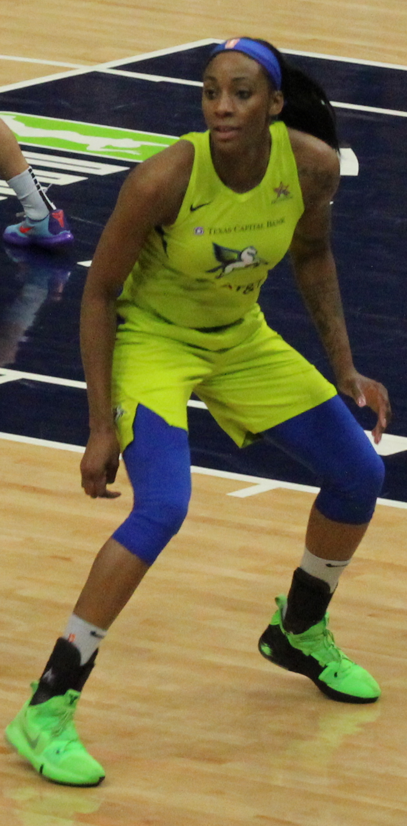 Glory Johnson of the Dallas Wings